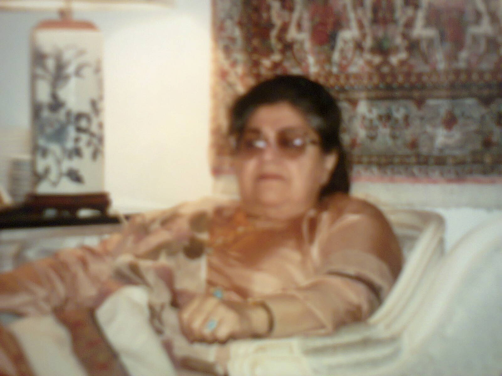 My maternal aunt Zari Bibi, who retired as a minister in the government during the 1980s, relaxing at home